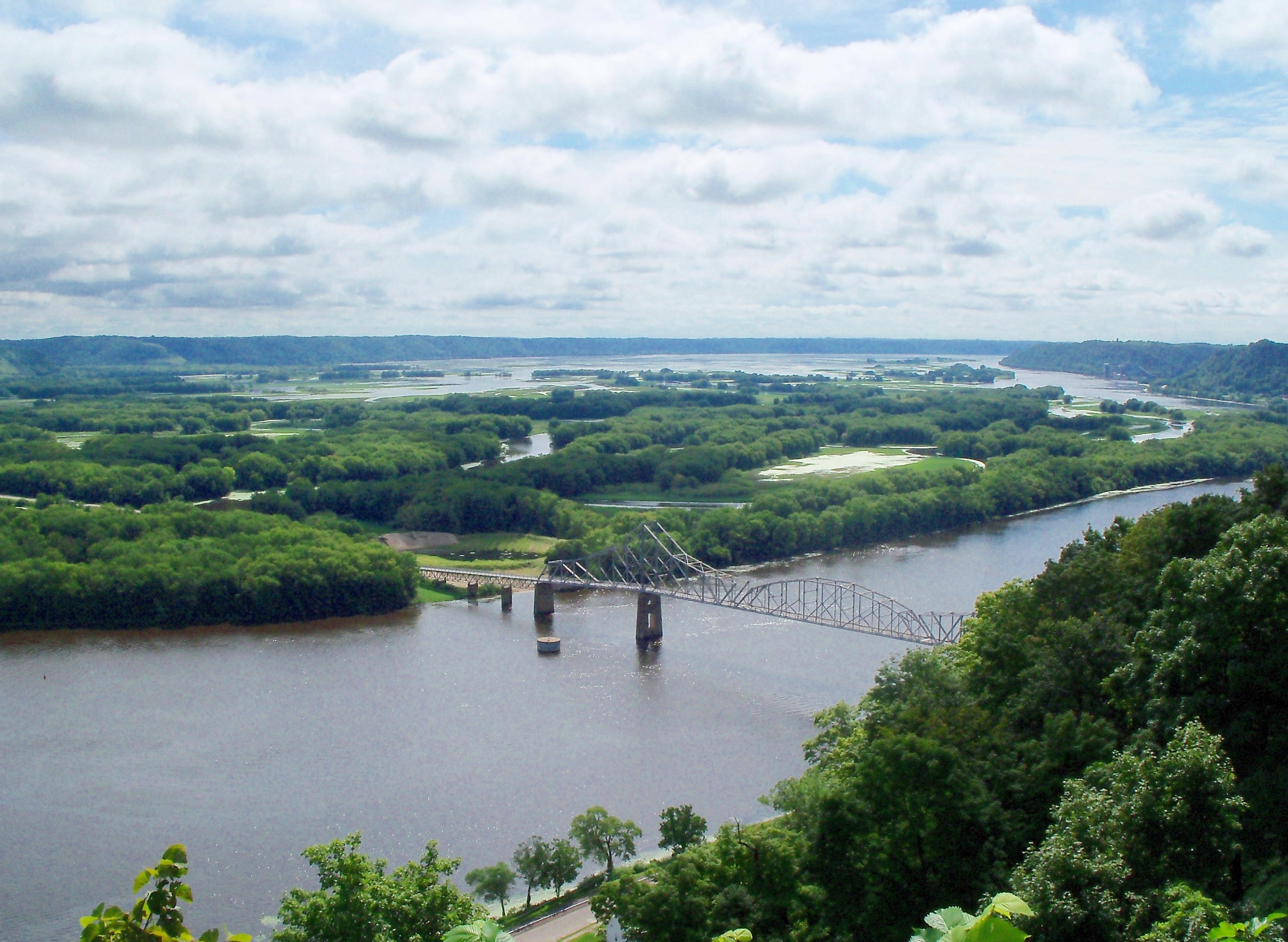 Upper Mississippi River National Wildlife and Fish Refuge